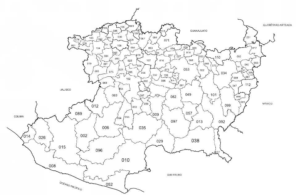 Map of the Municipalities of Michoacán state, southern México.